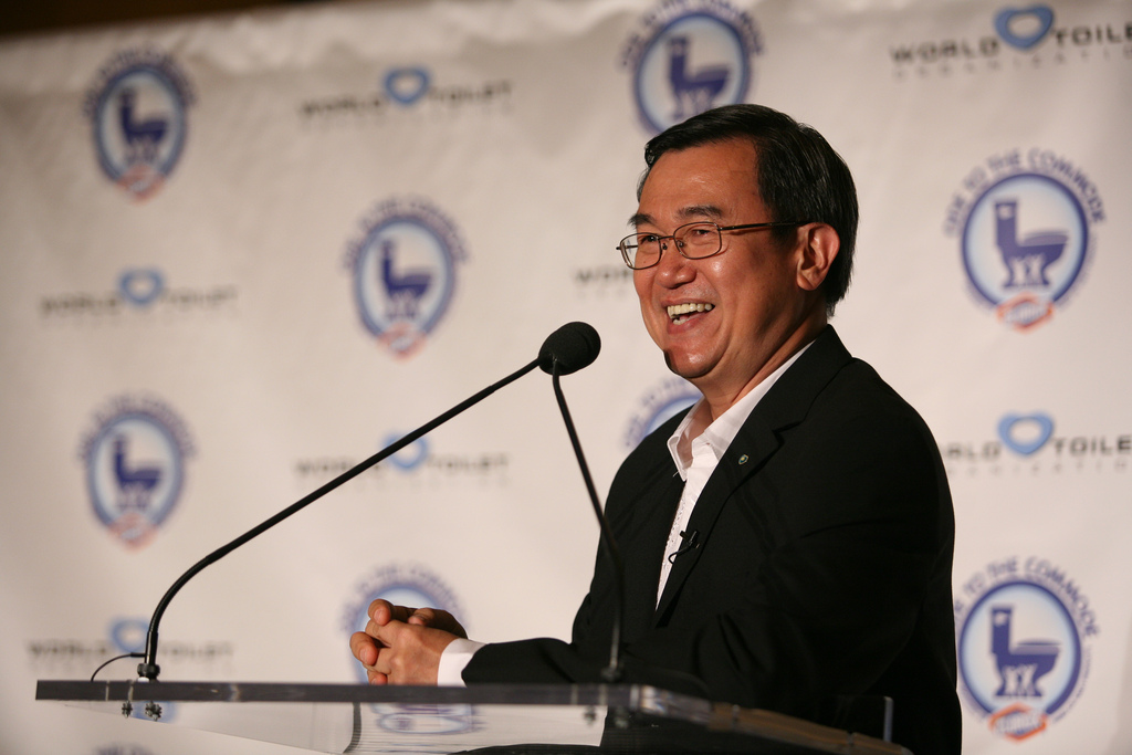 Jack Sim - World Toilet Organization fonder. WTO try to raise awareness and money to support the 40 percent of the world – 2.6 billion people – that don’t have access to sanitation.